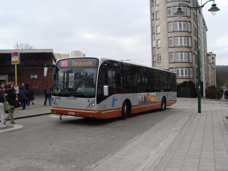 Van Hool A330 buses. STIB-MIVB Bruxelles company. Year built 2007.